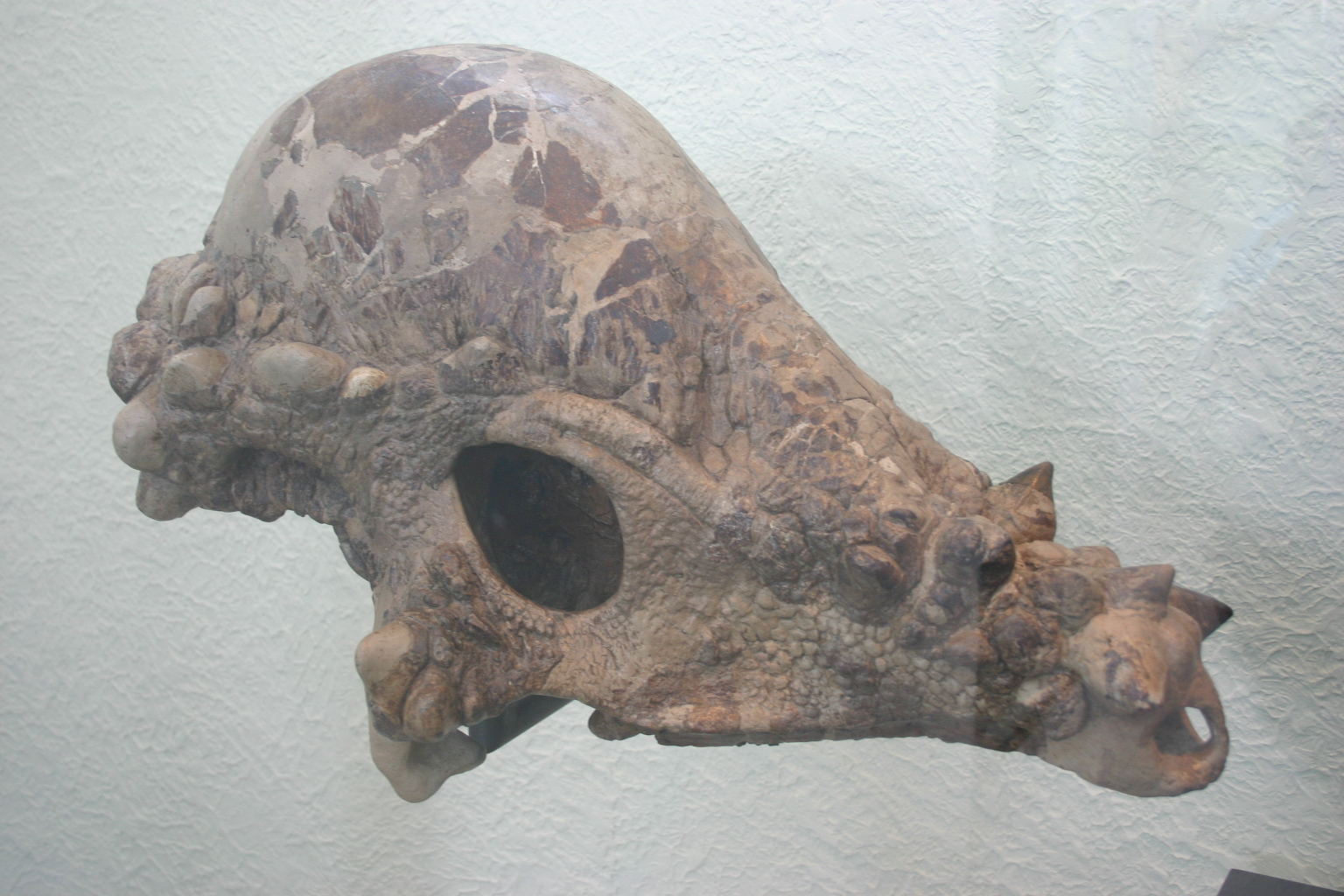 thick-headed reptile Visit my blog at